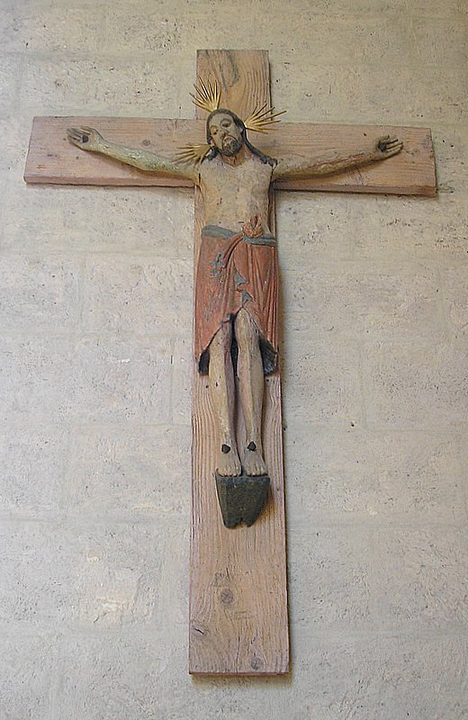 The romanesque crucifix (built 1660/1670) of St. Jakobus in Schondorf am Ammersee, Bavaria, Germany